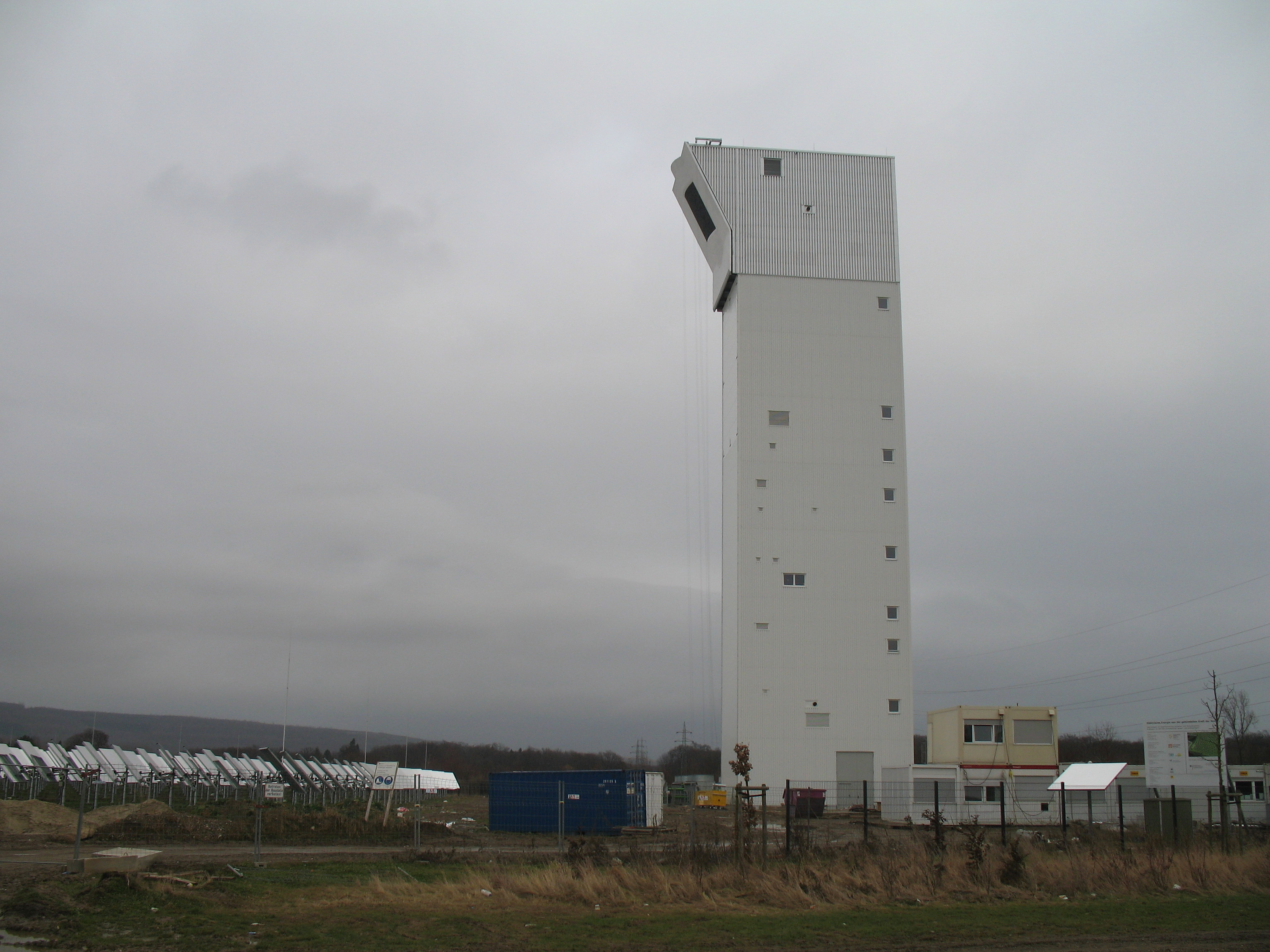 Solarthermisches Versuchskraftwerk Jülich (STJ)